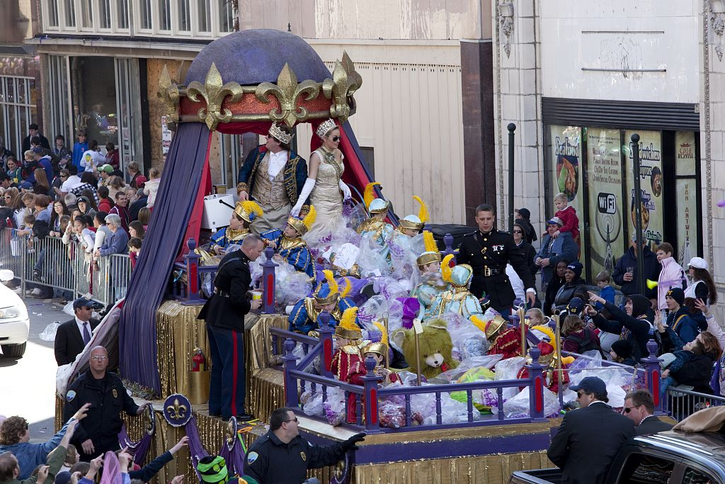 Mardi Gras, Mobile, Alabama.